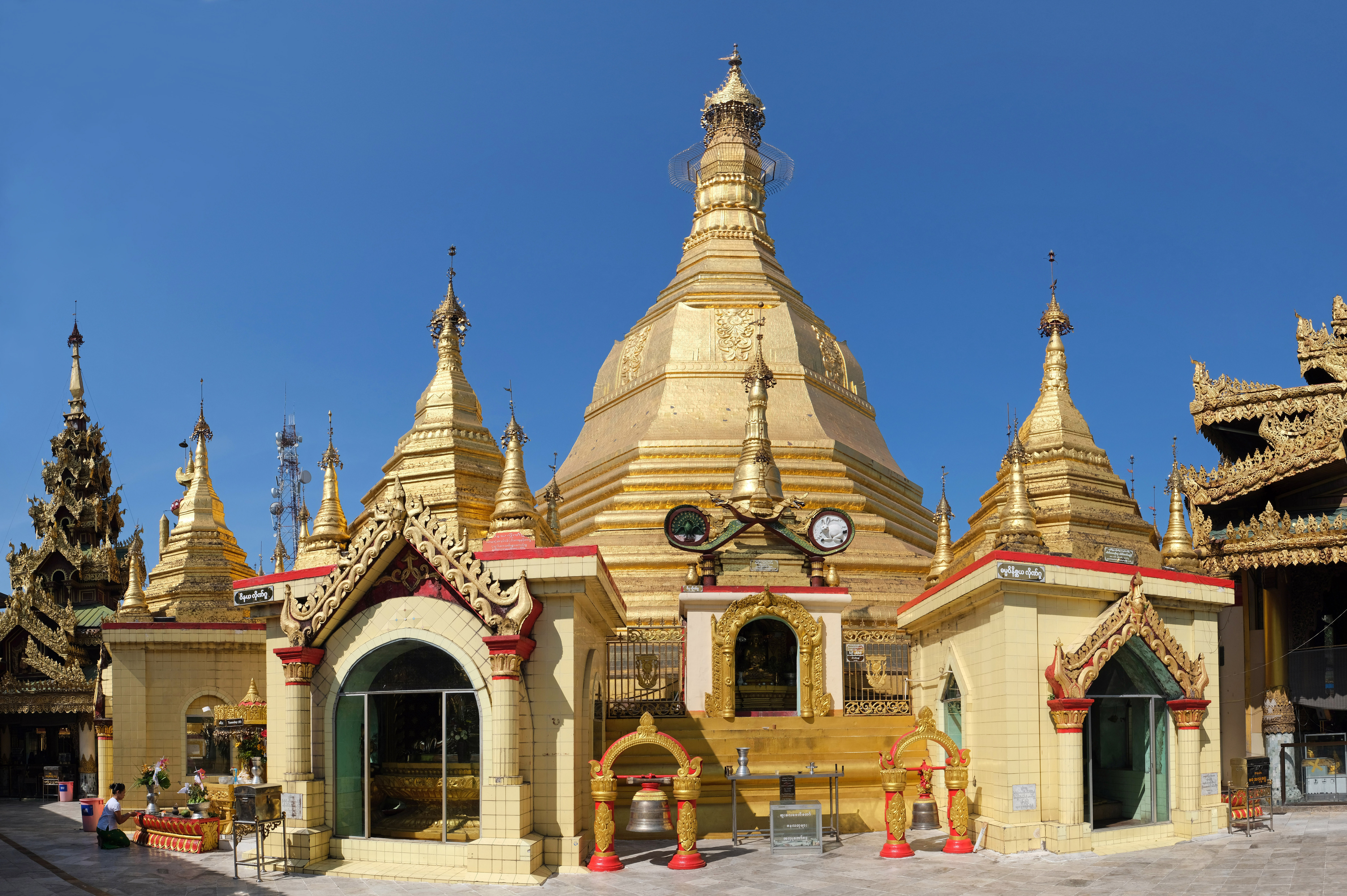 Sule Pagoda, Yangoon.